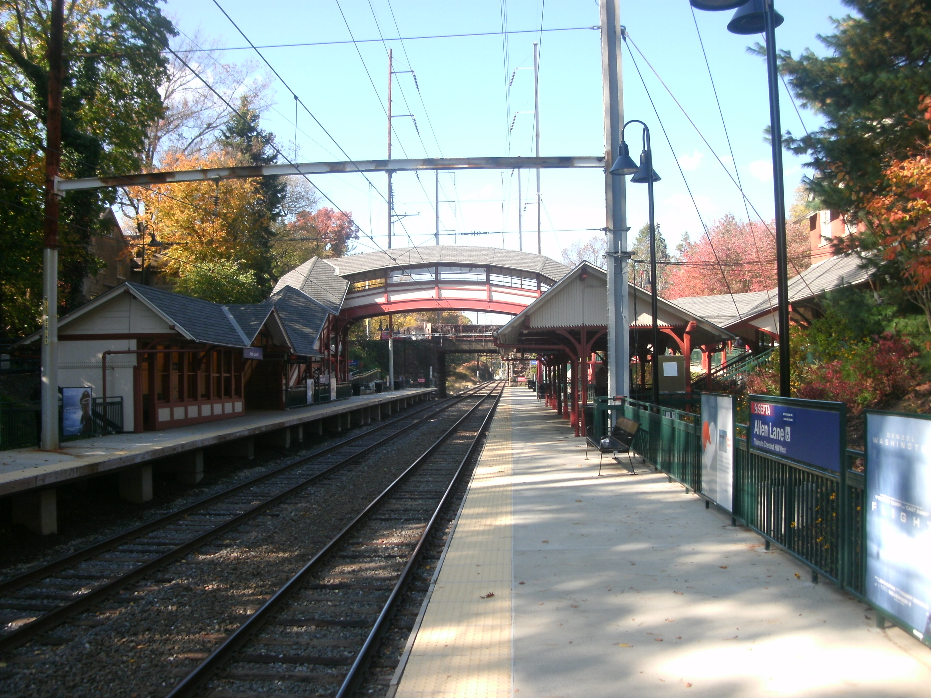 The Allen Lane SEPTA Regional Rail station on the Chestnut Hill West Line in Philadelphia, Pennsylvania.